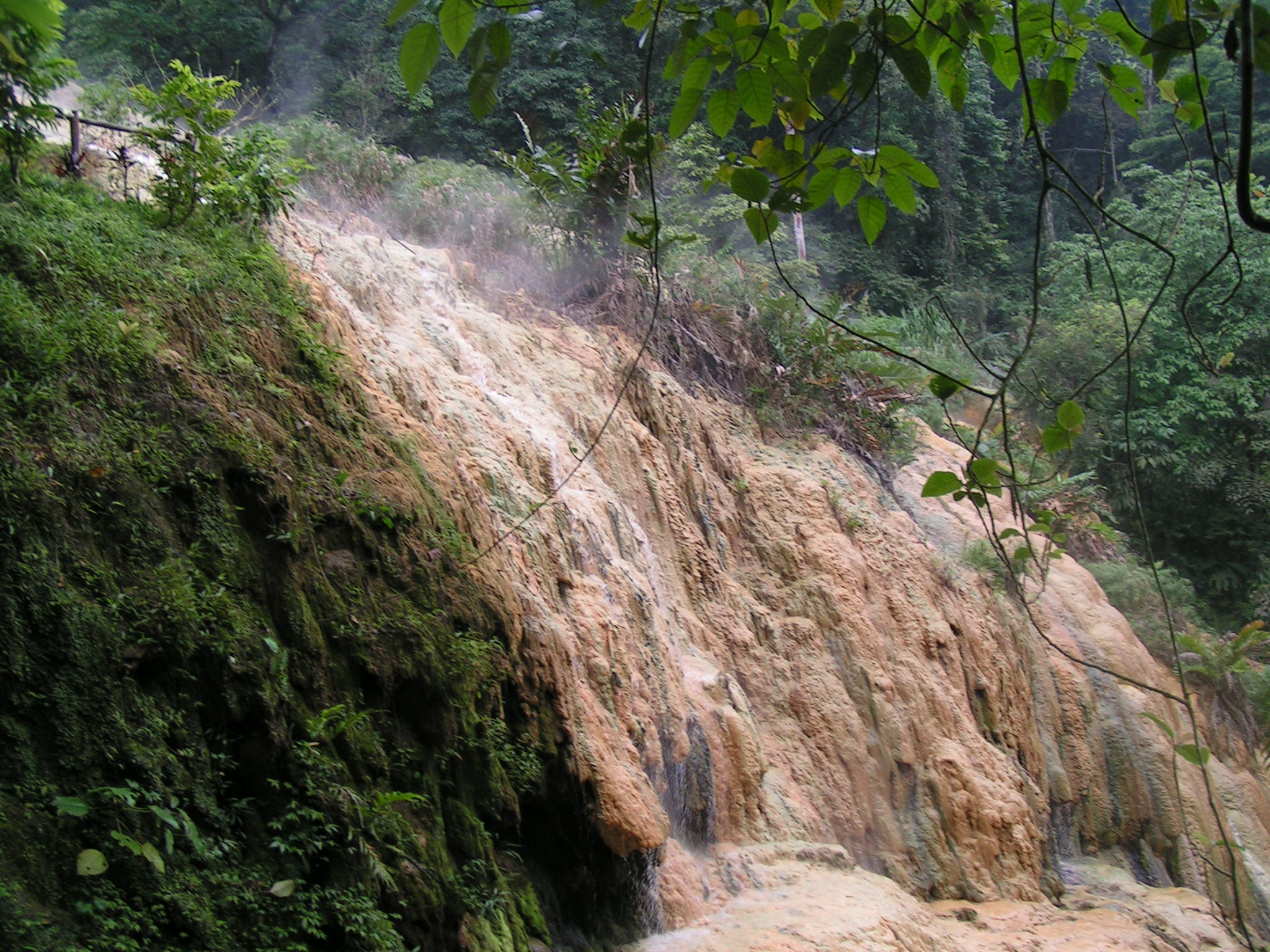 A mineral deposit from hot springs in Baturaden, Indonesia